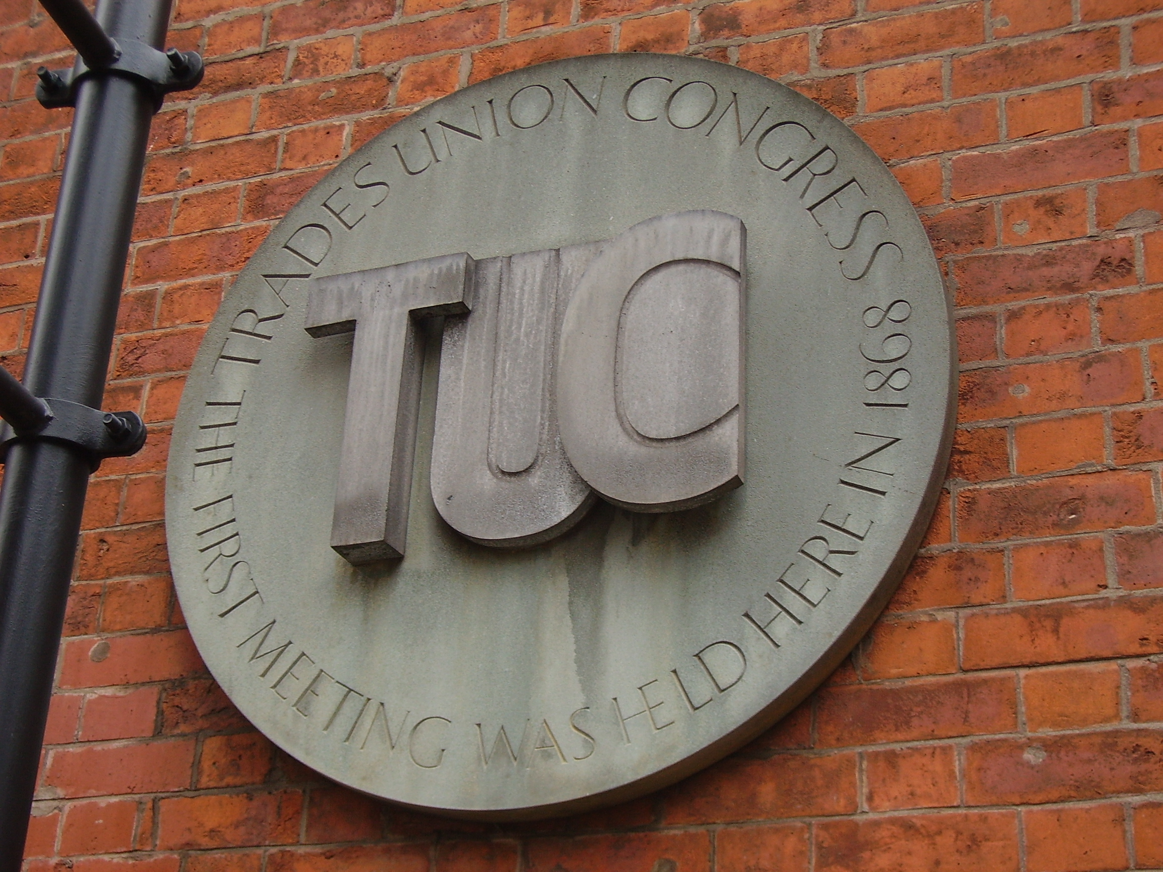 plaque